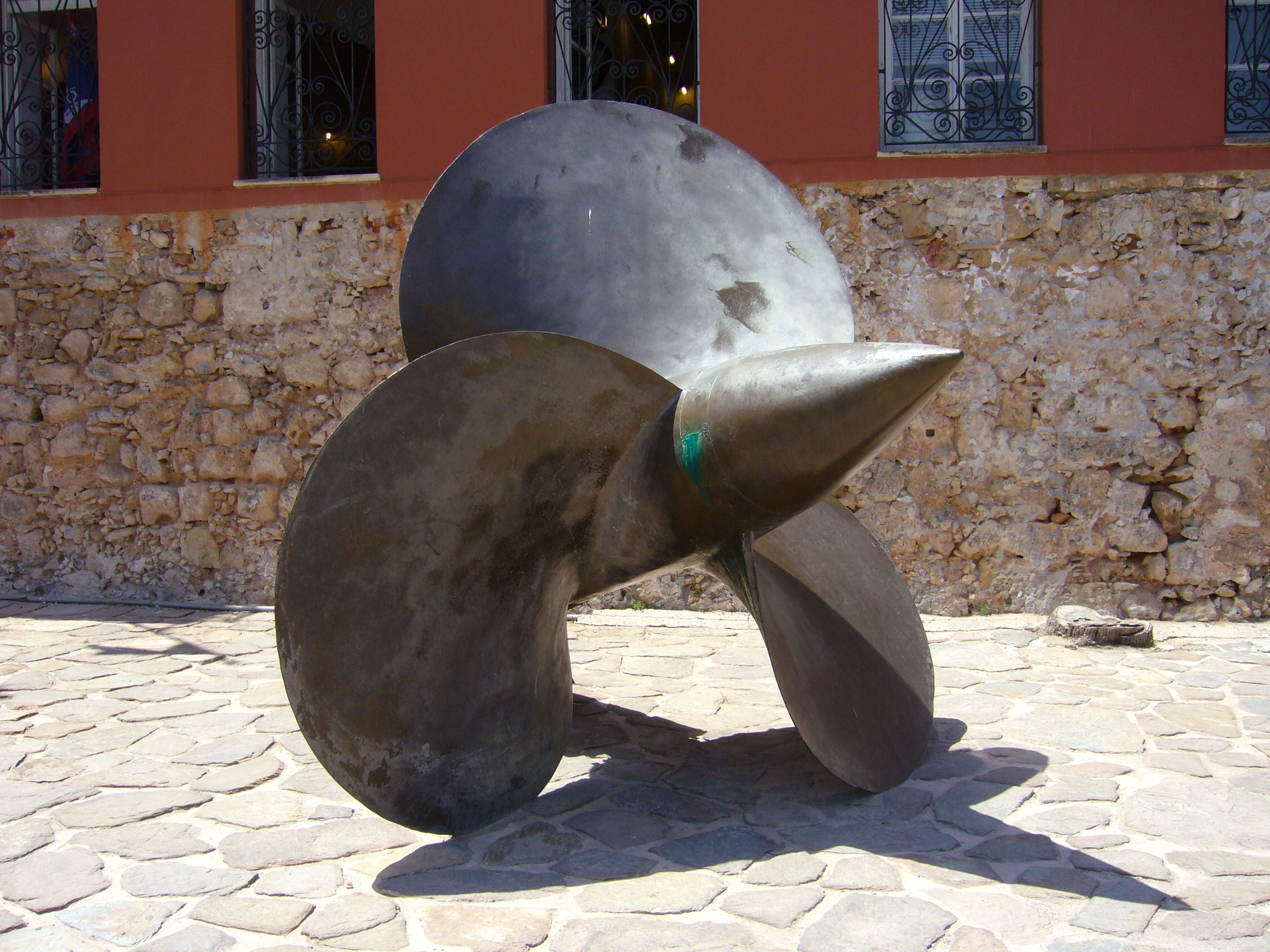 A propeller recovered from an American warship, circa 1940s, made of phosphor bronze